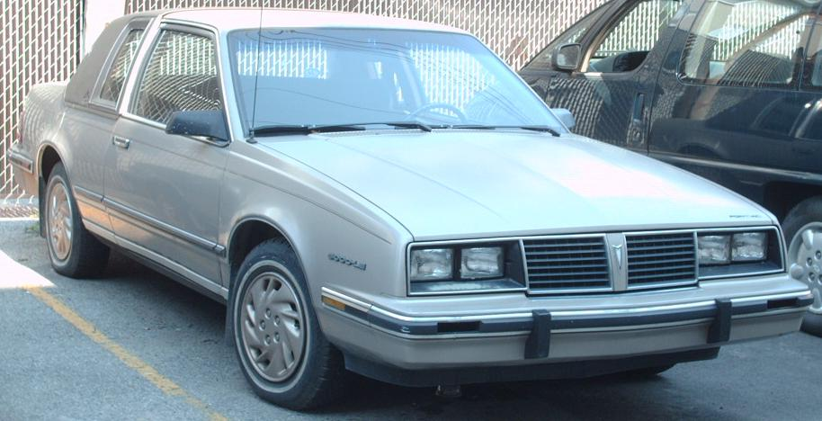 1982-1984 Pontiac 6000 coupe photographed in Montreal, Quebec, Canada.